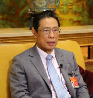 Chinese pulmonologist Zhong Nanshan, member of the Chinese Academy of Engineering.